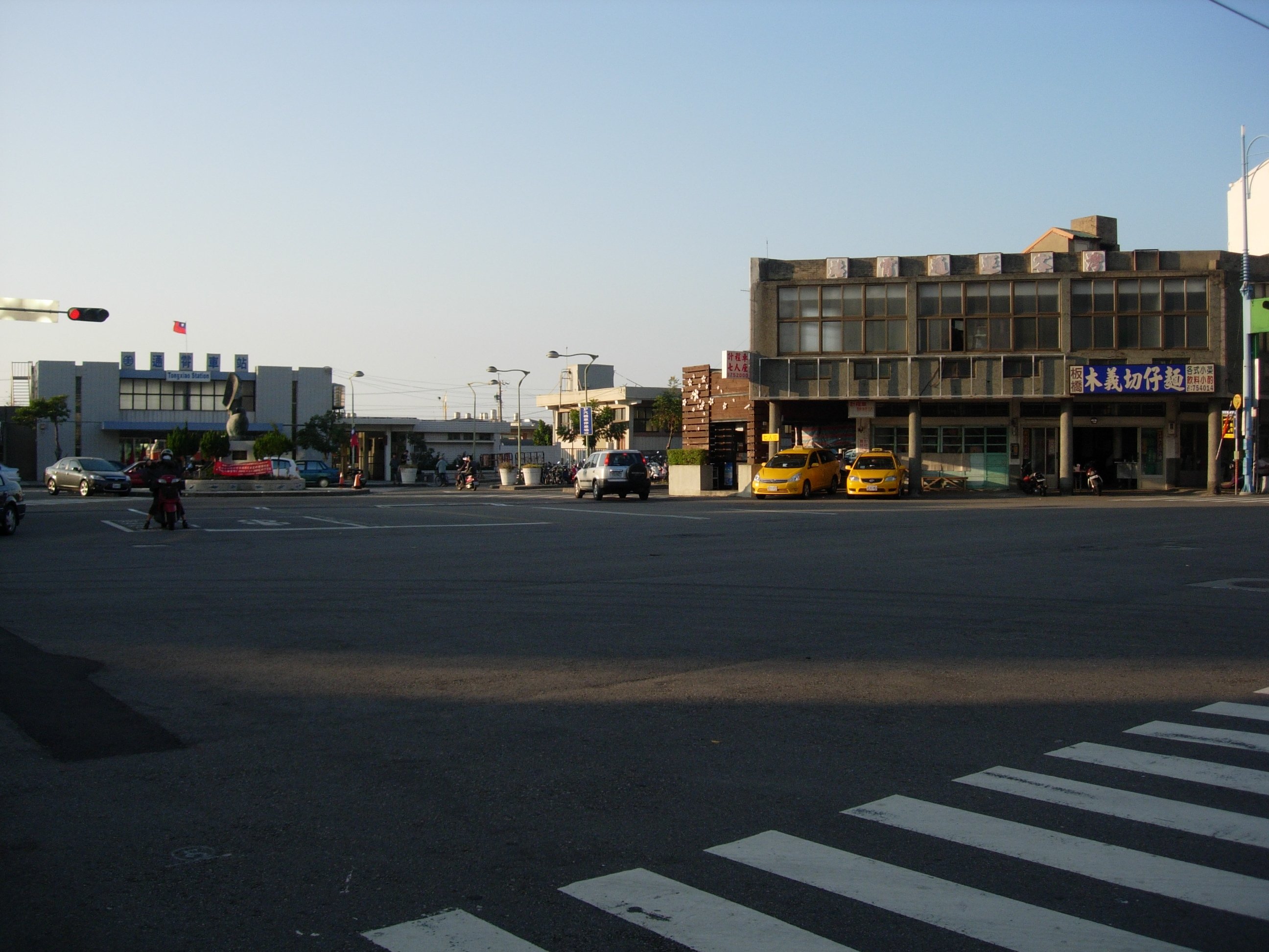 Tungshiau Town Railway station and Bus station